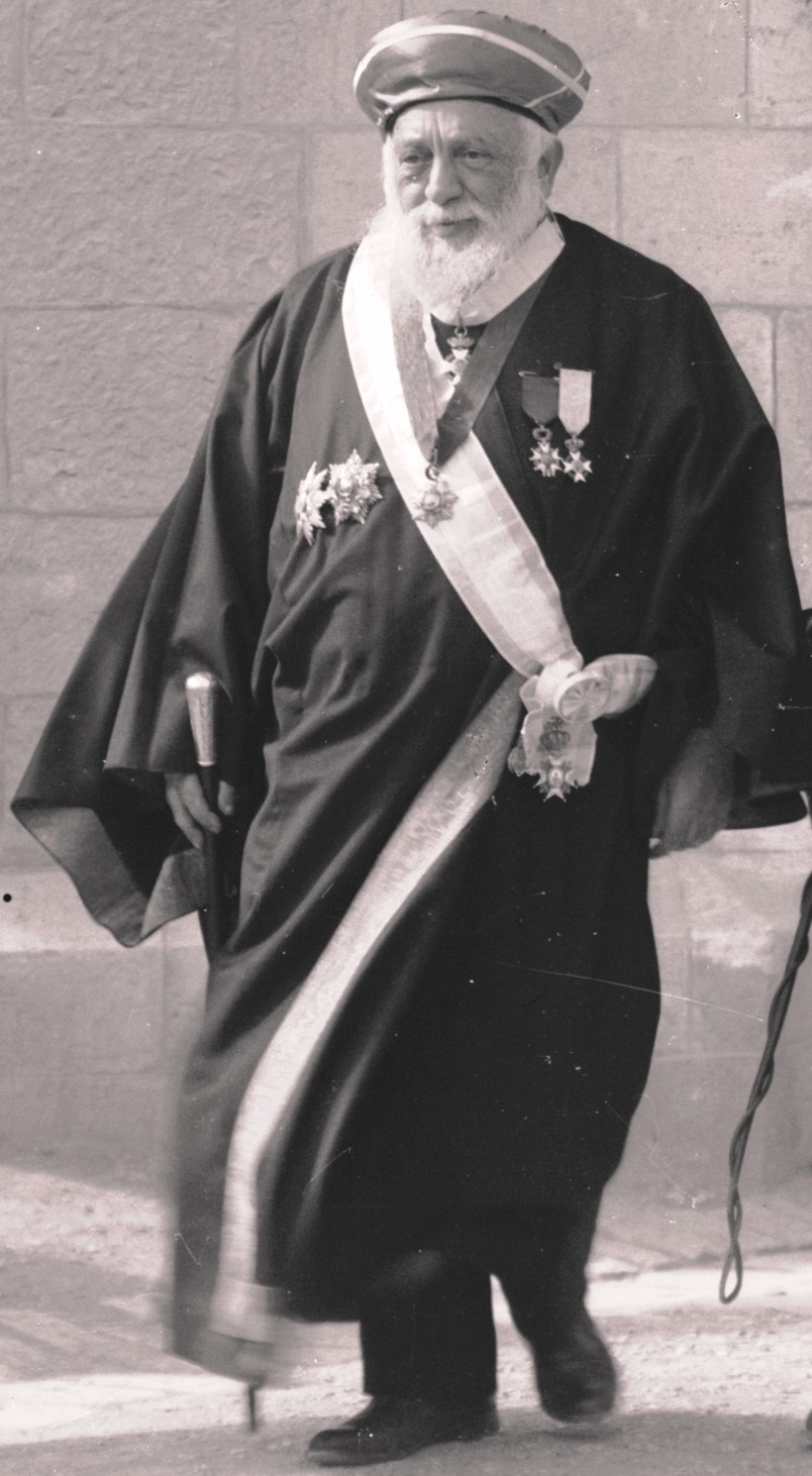 Costumes, characters, etc. Grand rabbi. Photo shows Jacob Meir (1856-1939), who served as the first Sephardic chief rabbi under the British Mandate of Palestine (1921-1939). (Source: Wikimedia Commons, 2010)